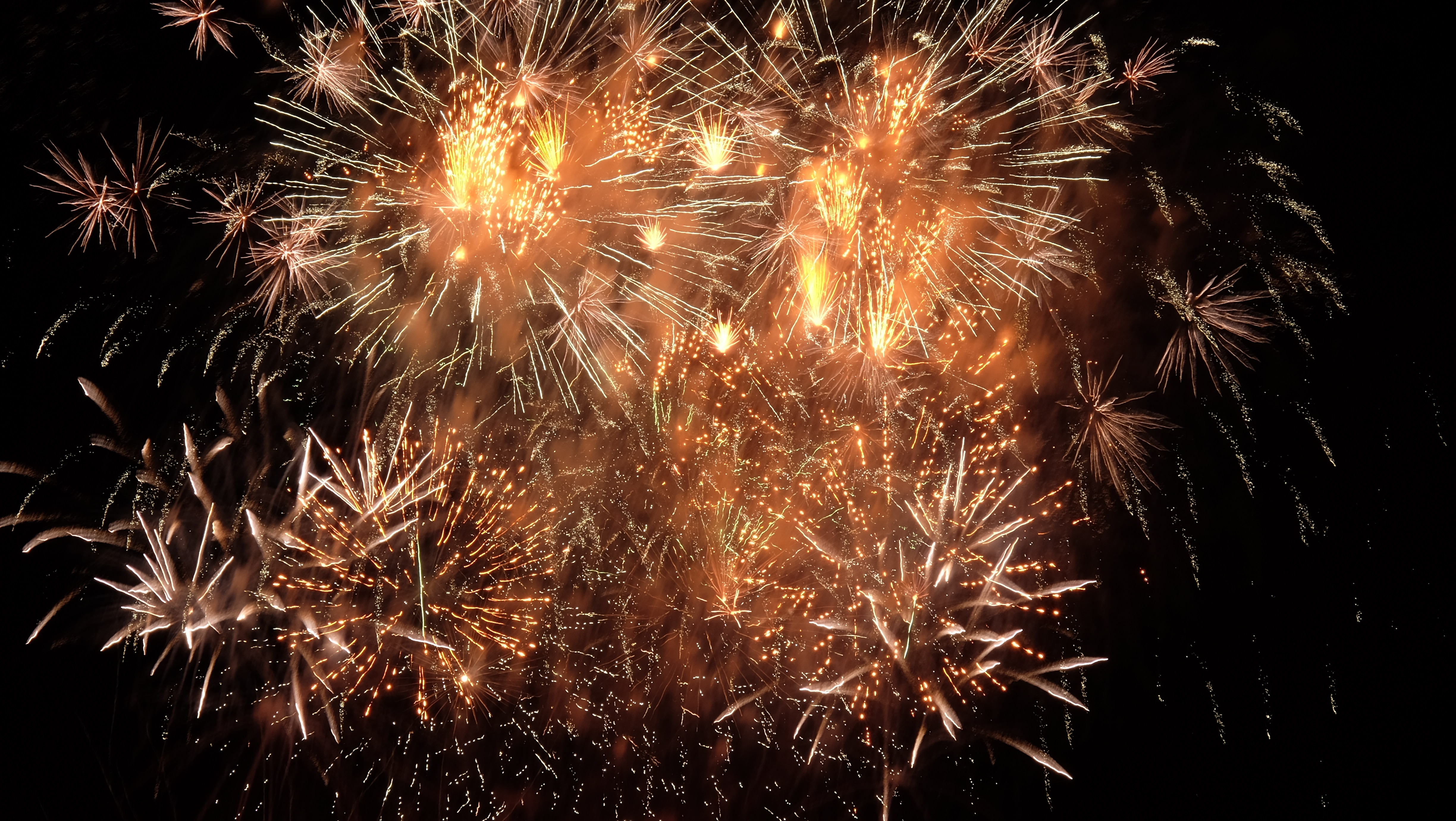 Firework at Pyronale 2017 in Berlin.